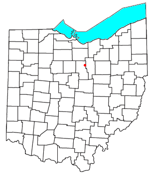 Locator map of the unincorporated community of Olivesburg in Richland County, Ohio, United States.